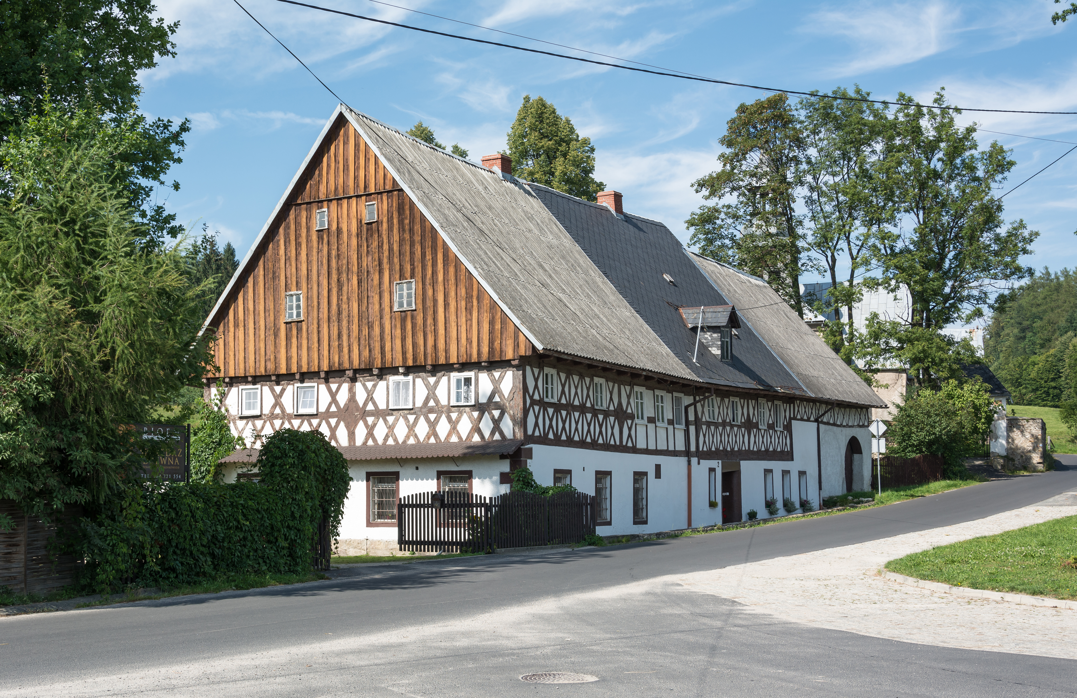 2 Kościelny Square in Bukowiec, former court inn, timber framing house